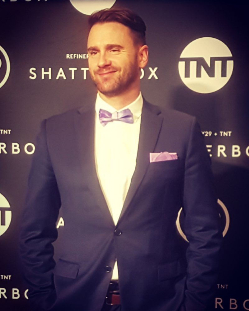 Julian Bailey at the 2018 Toronto International Film Festival